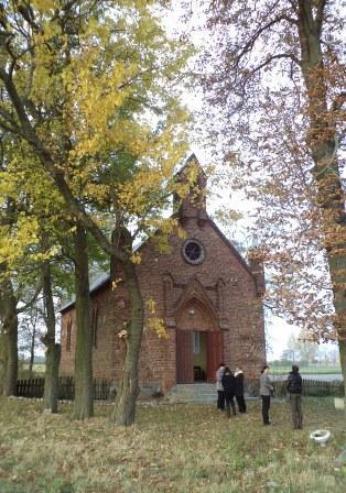 Old Catholic Mariavit Church in Kadzidlowa